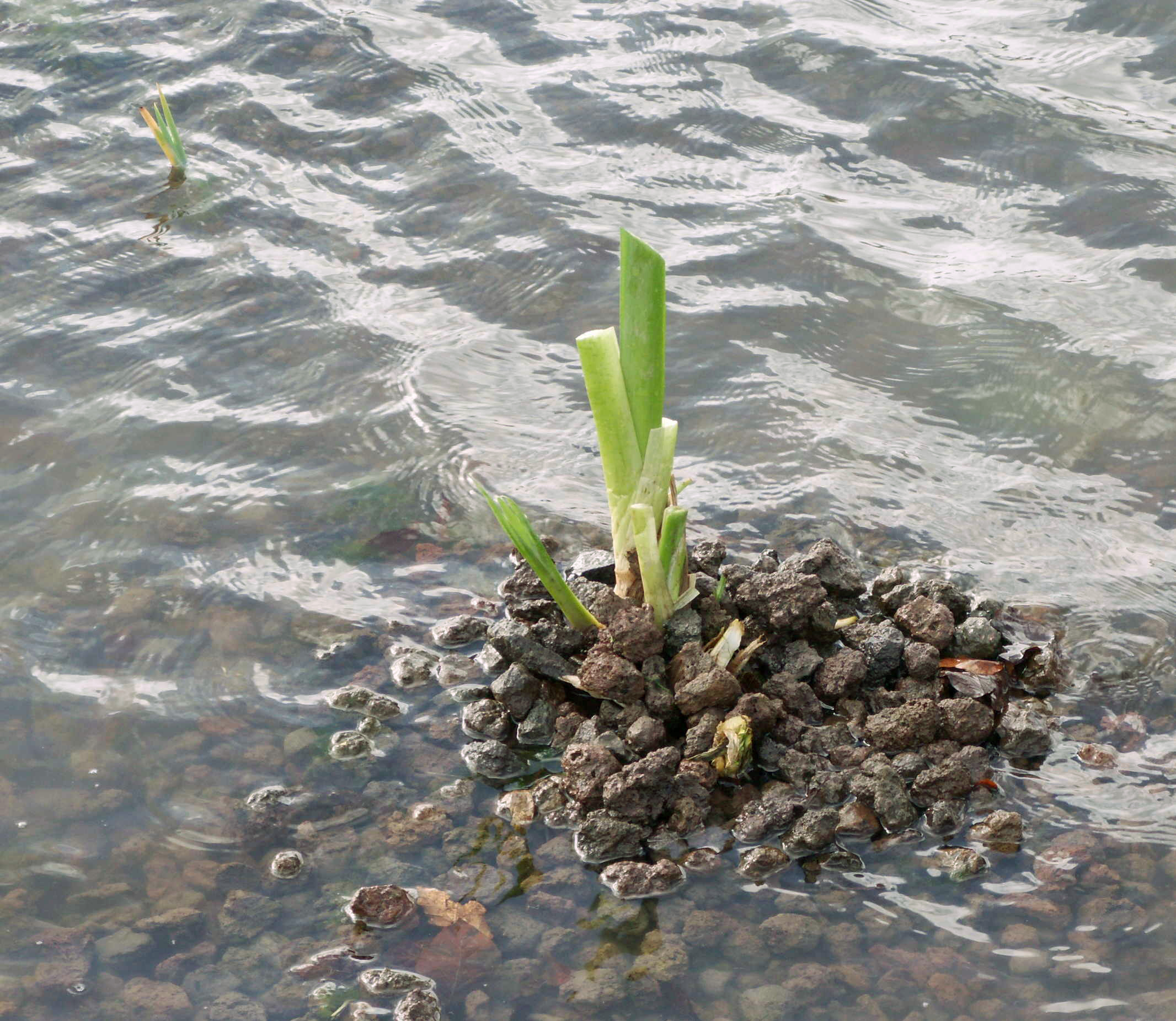 Iris pseudacorus, used in a lavafilter to purify rooftop-rainwater. The rooftop rainwater is used for irrigation purposes in an agricultural company.